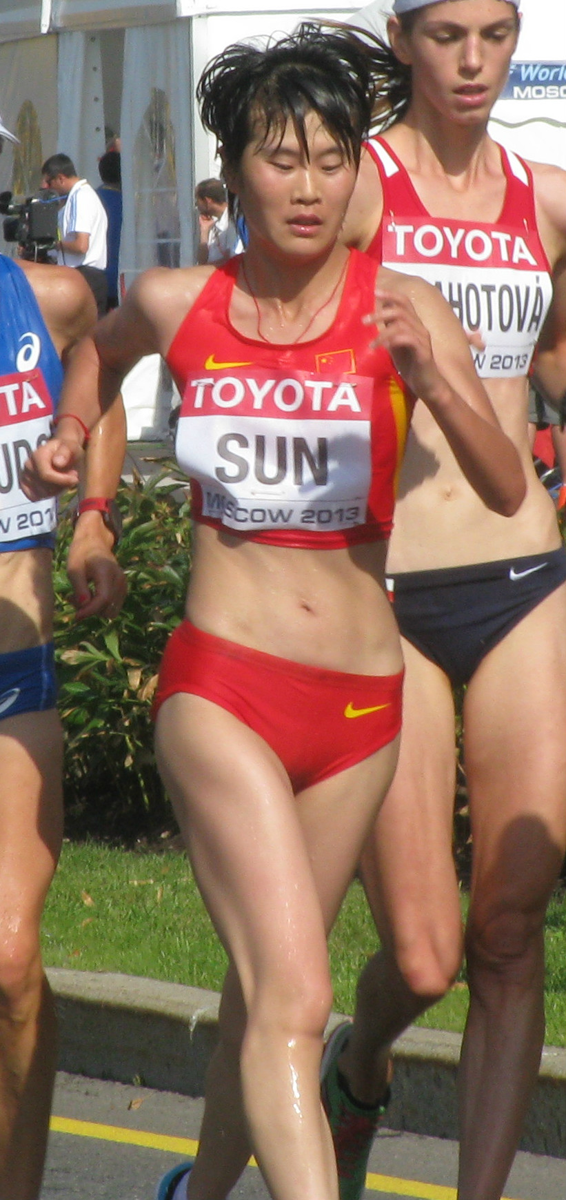 Sun Huanhuan in action during Women's 20 kilometres walk at the 2013 World Championships in Athletics